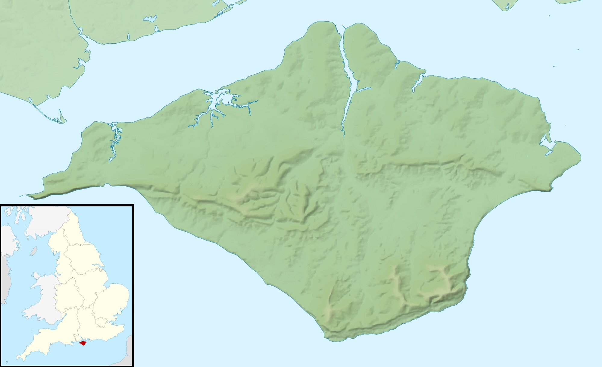 Relief map of the Isle of Wight, UK. Equirectangular map projection on WGS 84 datum, with N/S stretched 155% Geographic limits: West: 1.61W East: 1.05W North: 50.78N South: 50.56N